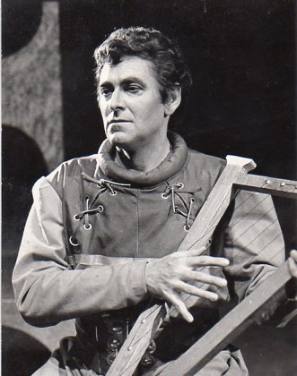 Hynek Maxa (1922-2001), Czech opera singer and vocal coach.